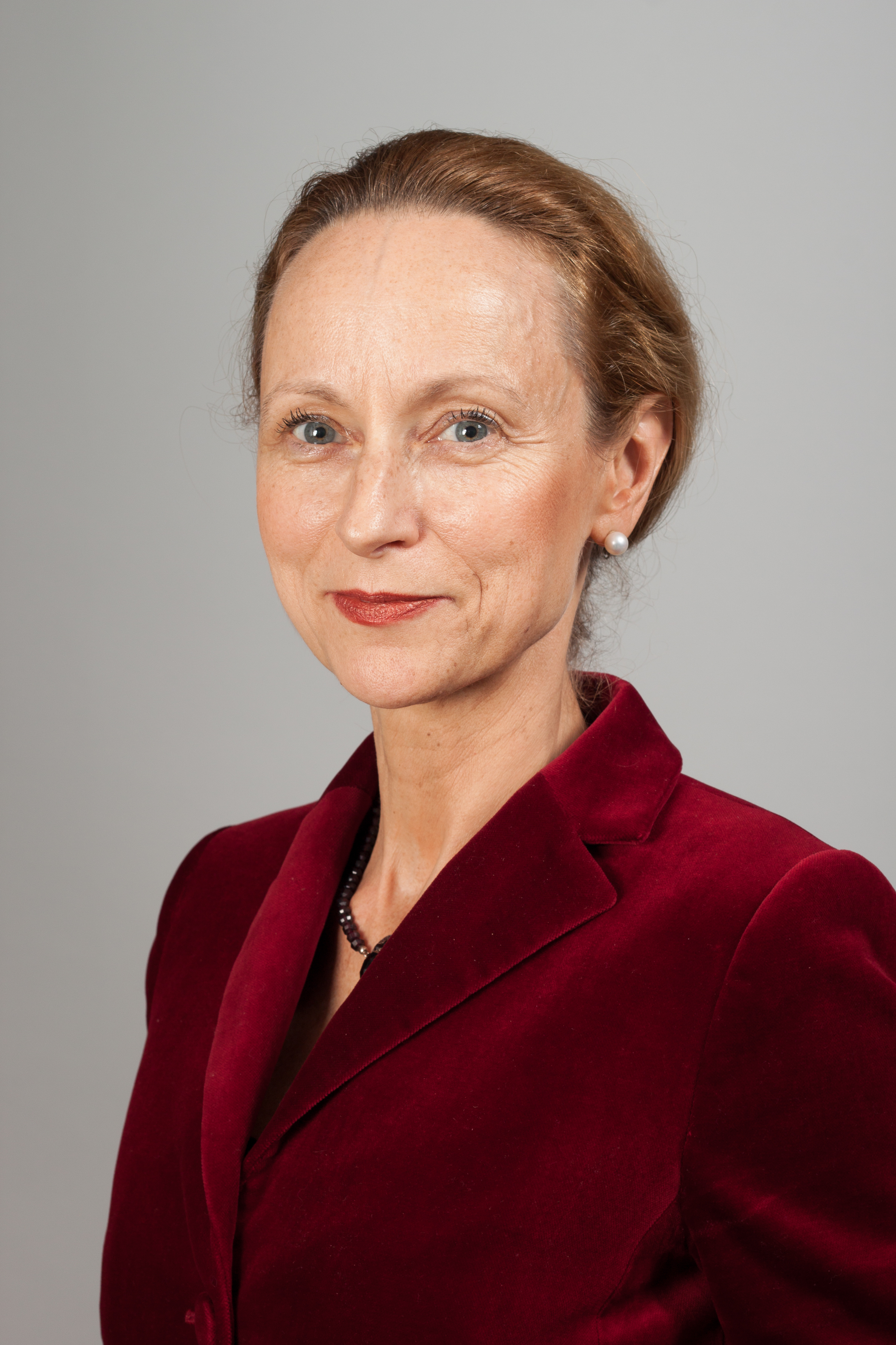 Minister of state of science and art of Saxony Sabine von Schorlemer